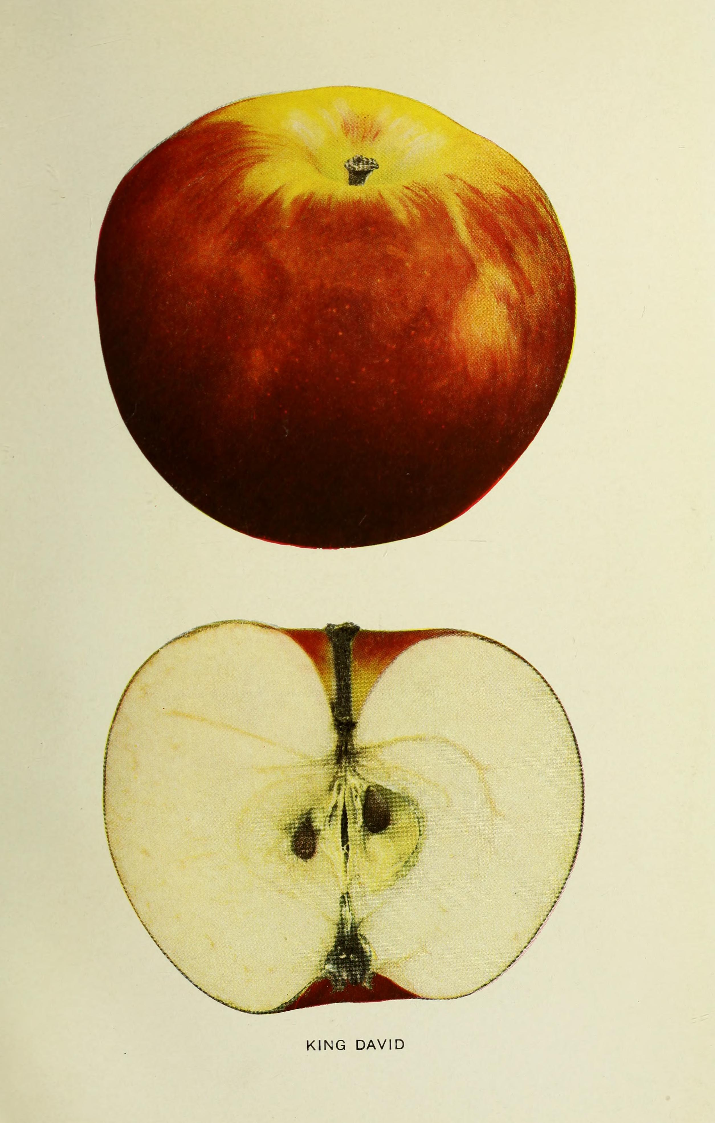 Title: Annual report of the Board of Control of the New York Agricultural Experiment Station Year: 1882 (1880s) Authors: New York State Agricultural Experiment Station. Board of Control Subjects: New York State Agricultural Experiment Station Agriculture Publisher: Geneva, N.Y. New York Agricultural Experiment Station under authority of Cornell University Text Appearing Before Image: spicuous;skin thin, tough, adherent; flesh yellow, faintly red at the pit, fine, tender, slightlyfibrous, rich, sweet, spicy; very good; stone free. CHERRY. Abbesse dOignies has so many good characters that it is well worth trying commercially wherever cherries are grown in theUnited States. Curiously enough, it seems so far to have been triedonly in the Middle West, Professor Budd having introduced it inIowa from Russia in 1883. It grew in the Mississippi Valley, ifwe may judge from the accounts of it, as well as any cherry of itsclass in the unfavorable soil and climatic conditions of that region.We do not know of its having been tried elsewhere in the East thanon our grounds and here we find it, in competition with practicallyall of the varieties of its class, one of the best of the Dukes. Thetrees are vigorous, hardy, fruitful. The cherries are large, darkred, of most excellent quality, combining the flavor of the Dukeswith a firmer and yet tenderer flesh than the Montmorency. The Text Appearing After Image: EDGEMONT ABBESSE DOIGNIES